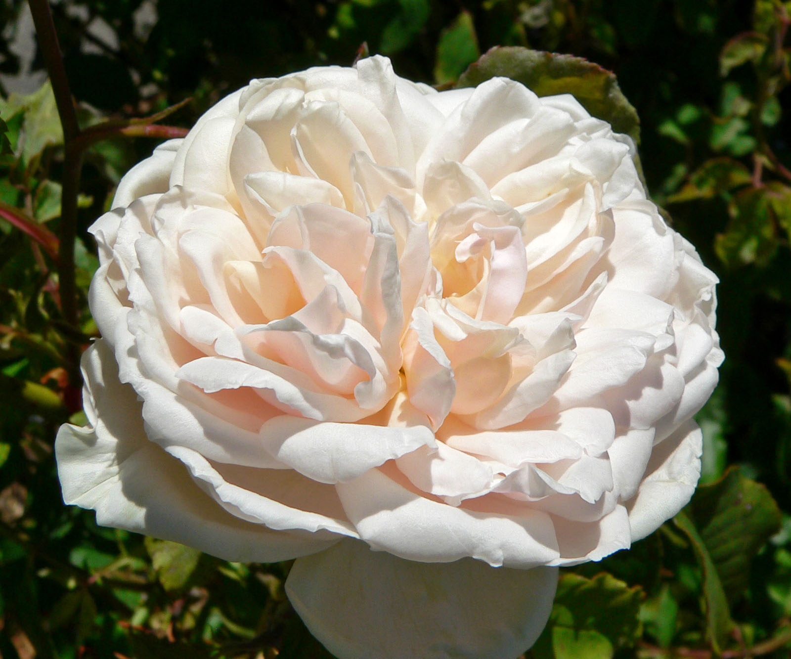 Rosa 'Madame Alfred Carrière' at the San Jose Heritage Rose Garden